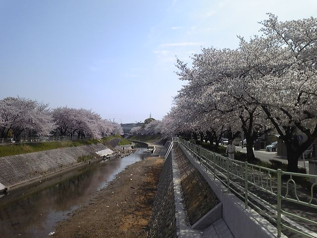 Kanare river with cherry blossoms